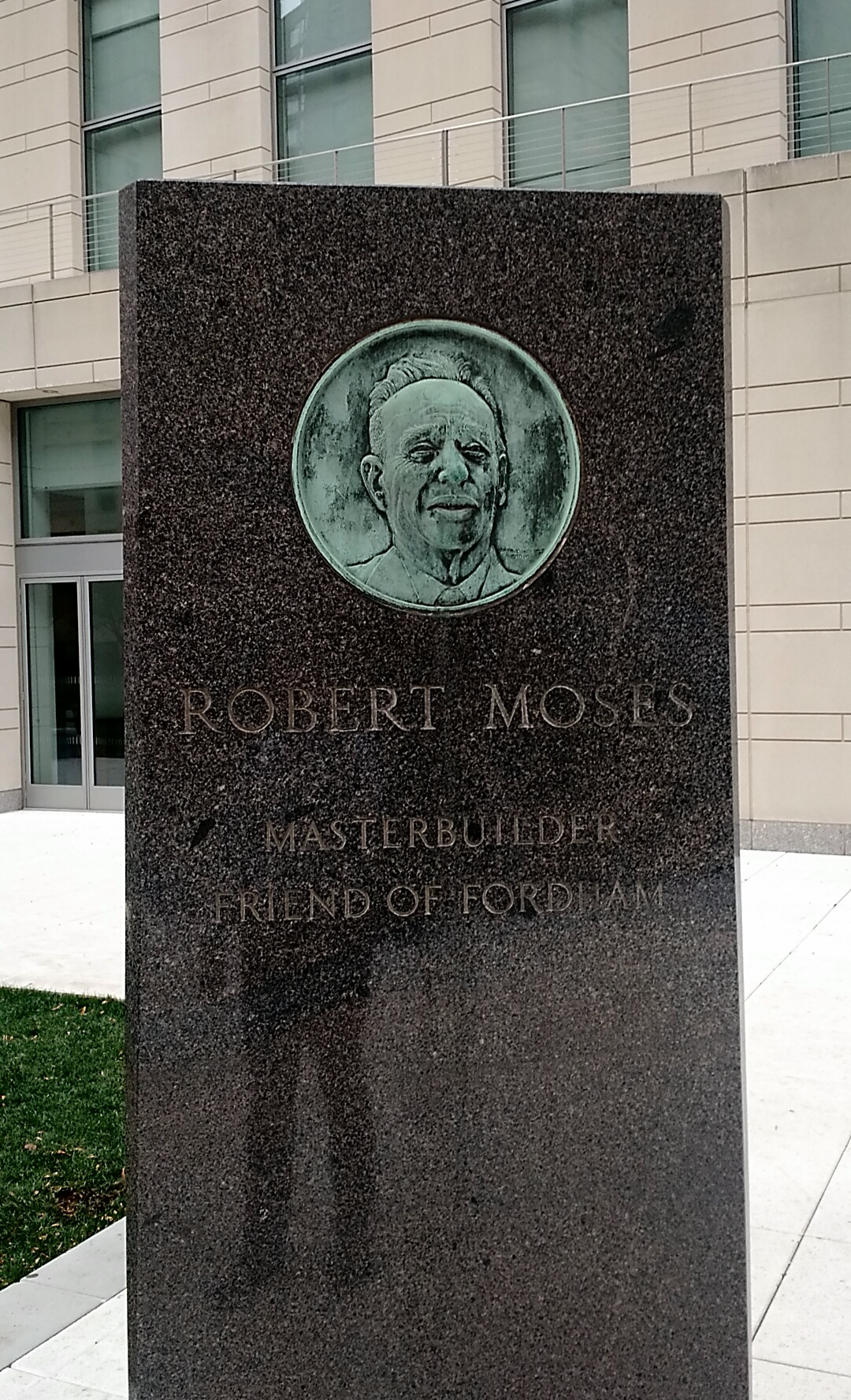 Three sided monument to Robert Moses that was reestablished on the Fordham Lincoln Center Campus in Fall 2015.